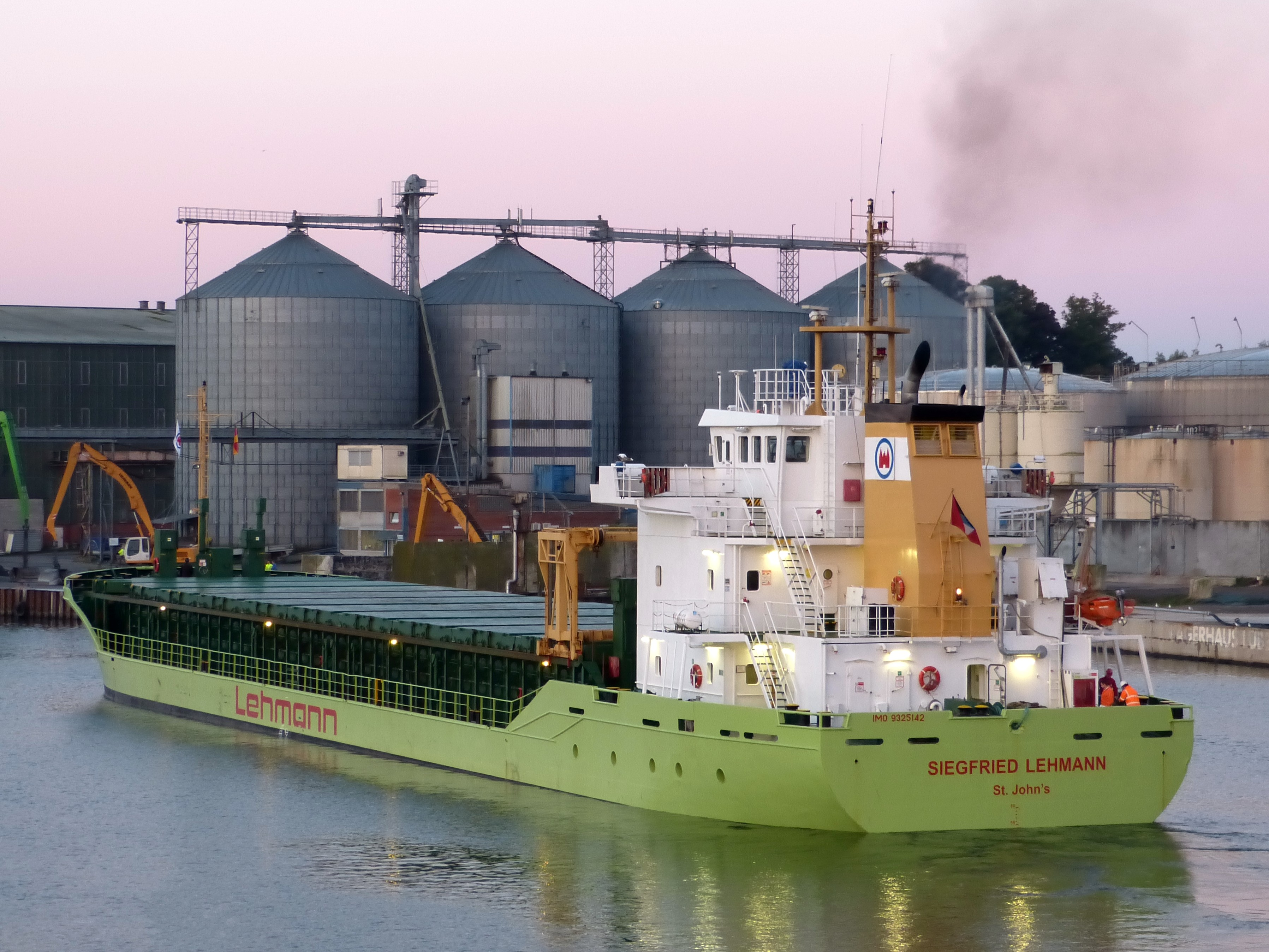 Siegfried Lehmann am Lagerhaus in Lübeck